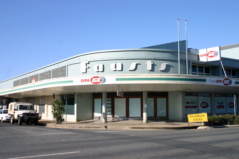 Fausts, Proserpine, Queensland